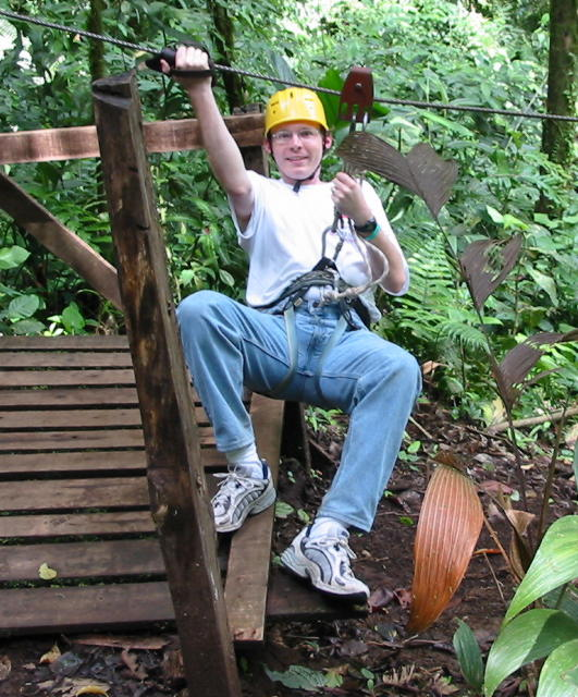 Jim Scarborough is prepared to ride a zip line down to the next platform in the trees of the Costa Rican rainforest near Arenal Volcano on March 15, 2002. A steel cable spans the distance between two trees. The rider is attached to the cable by a pulley, two ropes, and a harness. The specialized glove in his right hand allows him to limit his speed. A cable only wrapped around a single tree at each platform provides safety while riders change cables from arriving to departing. The two ropes allow for one rope to be manipulated while the other remains attached to a cable for safety.